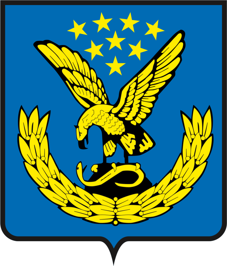 Caucasian Mineral Waters region, coat of arms